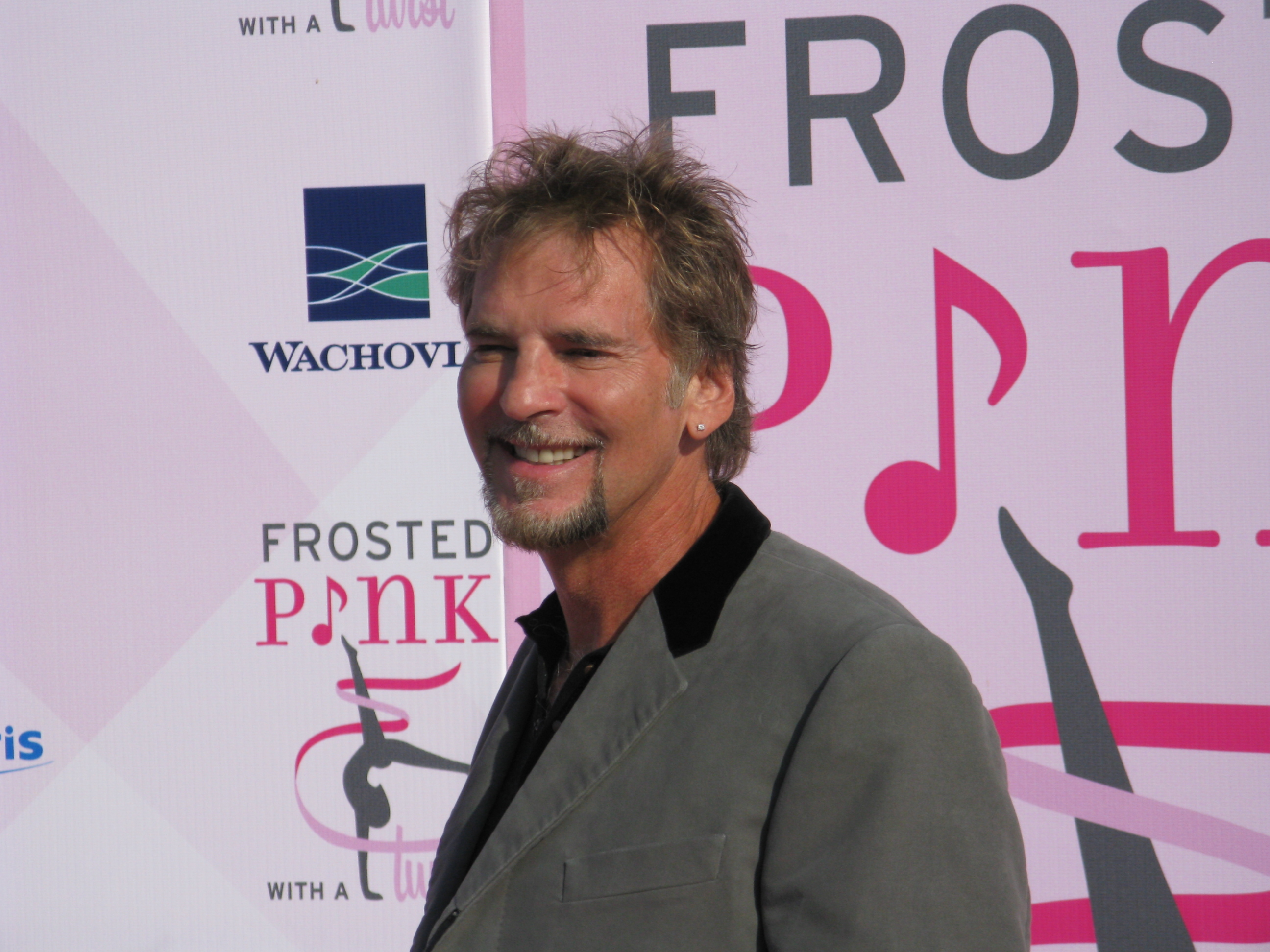 San Diego, California on September 14th, 2008